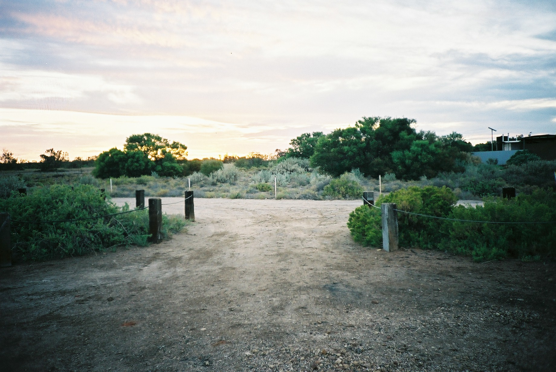 Dalhousie Springs, South Australia